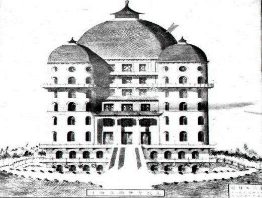 Project for the Confucian Church Headquarters (孔教总会堂) in Beijing (1922).